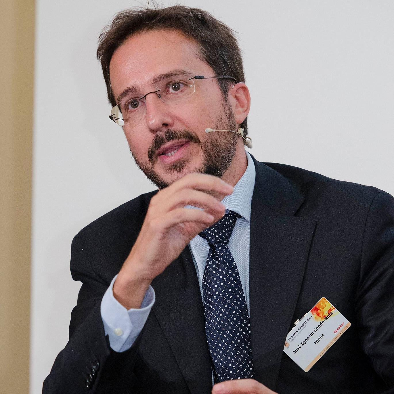 José Ignacio Conde-Ruiz